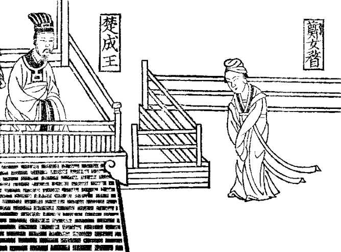 Qing Dynasty woodcut showing Zheng Mao 鄭瞀 with her husband King Cheng of Chu State 楚成王. The image illustrates Zheng's entry in the Han Dynasty text Biographies of Exemplary Women. This version was printed in Yangzhou in 1825 by Ruan Fuying.